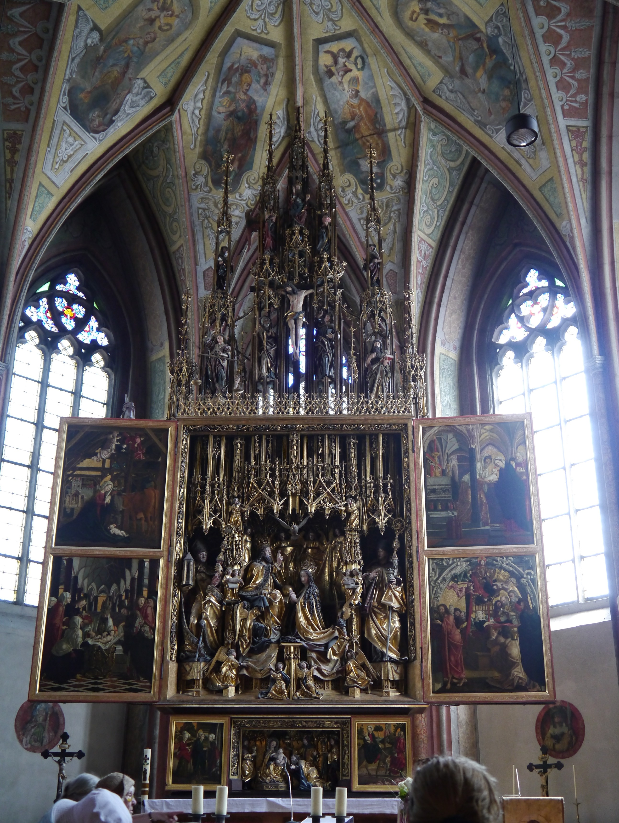 High Altar of the parish church, St. Wolfgang at Salzkammergut, Upper Austria